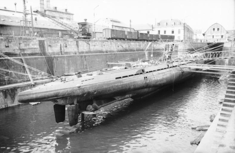 Title: Lorient, U-37 Extra information: Frankreich, Lorient.- U-Boot U 37 im Dock Factual corrections and alternative descriptions are encouraged separately from the original description. Additionally errors can be reported at this page to inform the Bundesarchiv. Original historic description